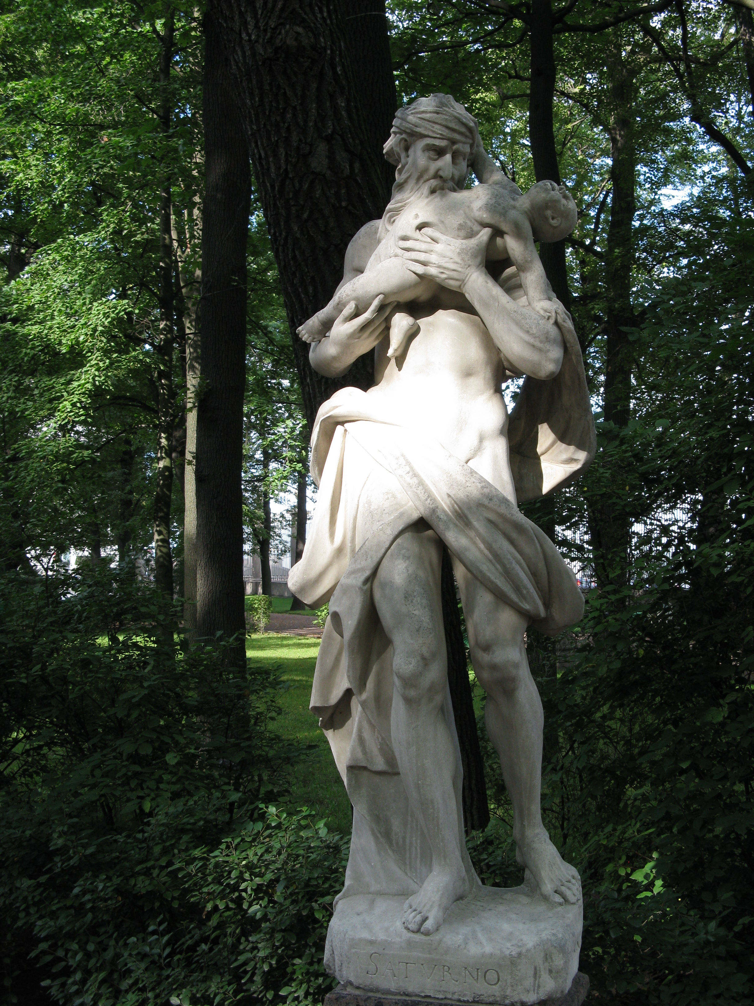 Saturn by Francesco Penso at Summer Garden.